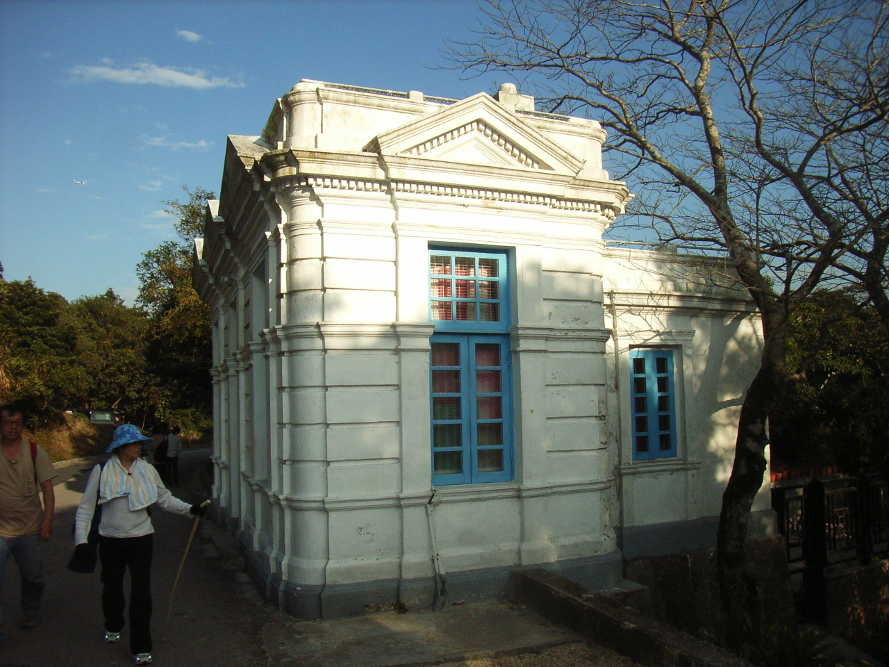 Victoria Peak Garden, Mount Austin Road, Victoria Peak, Hong Kong Photographer and author is ParkerStarS.